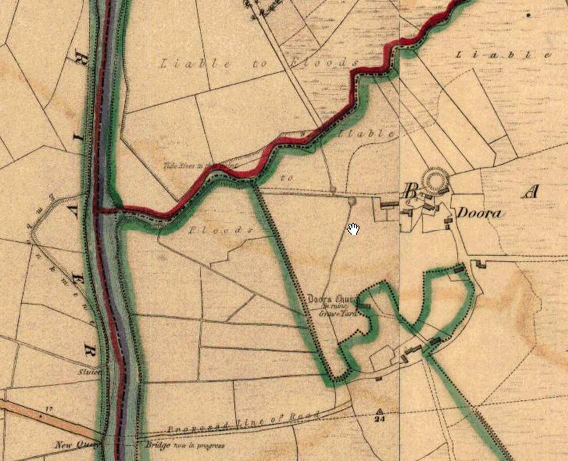 Detail of 6-inch Ordnance Survey map showing the hamlet of Doora and the ruined Doora Church, to the east of the River Fergus opposite Ennis